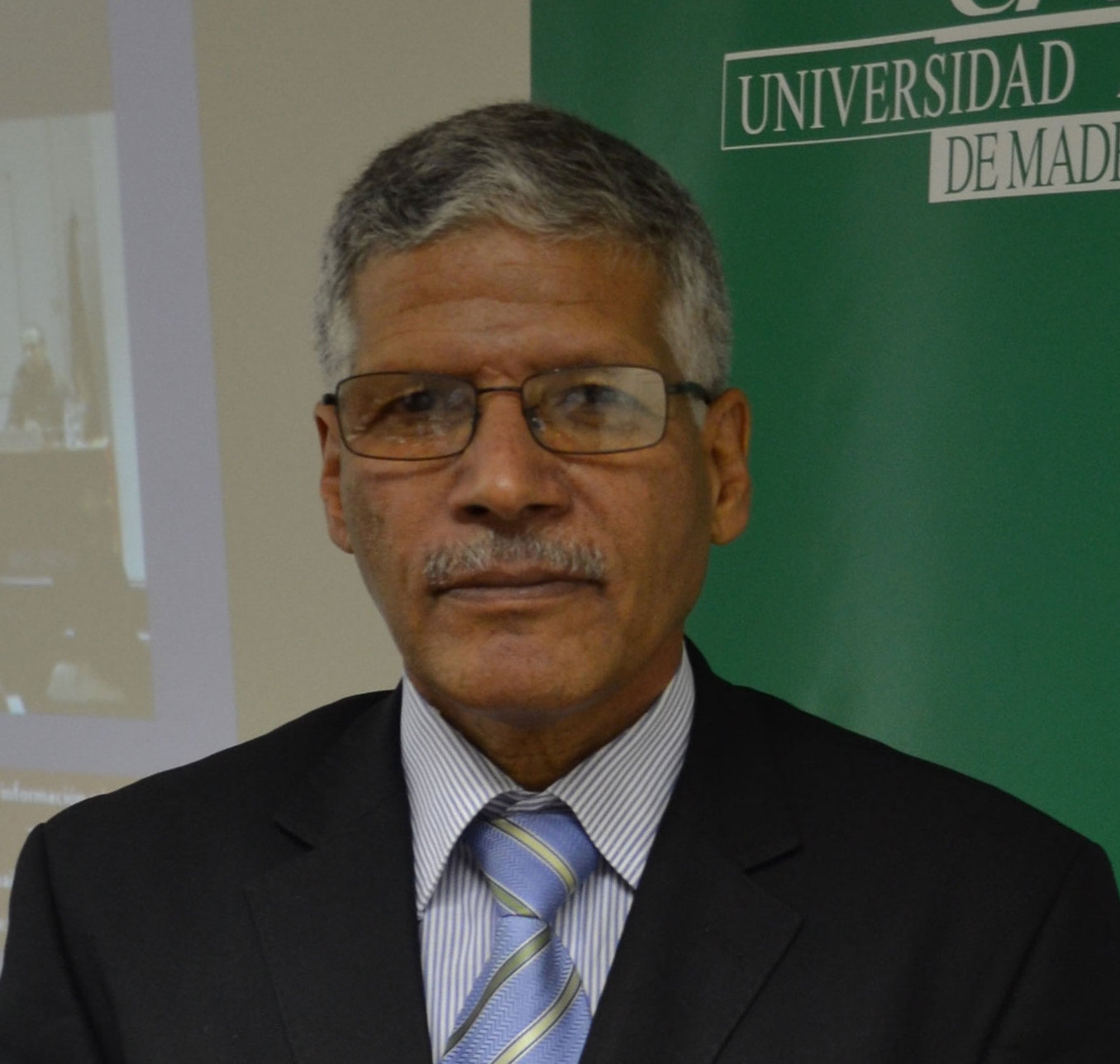 Photography done during the IX Conferences of the Public Universitys of Madrid about Western Sahara.